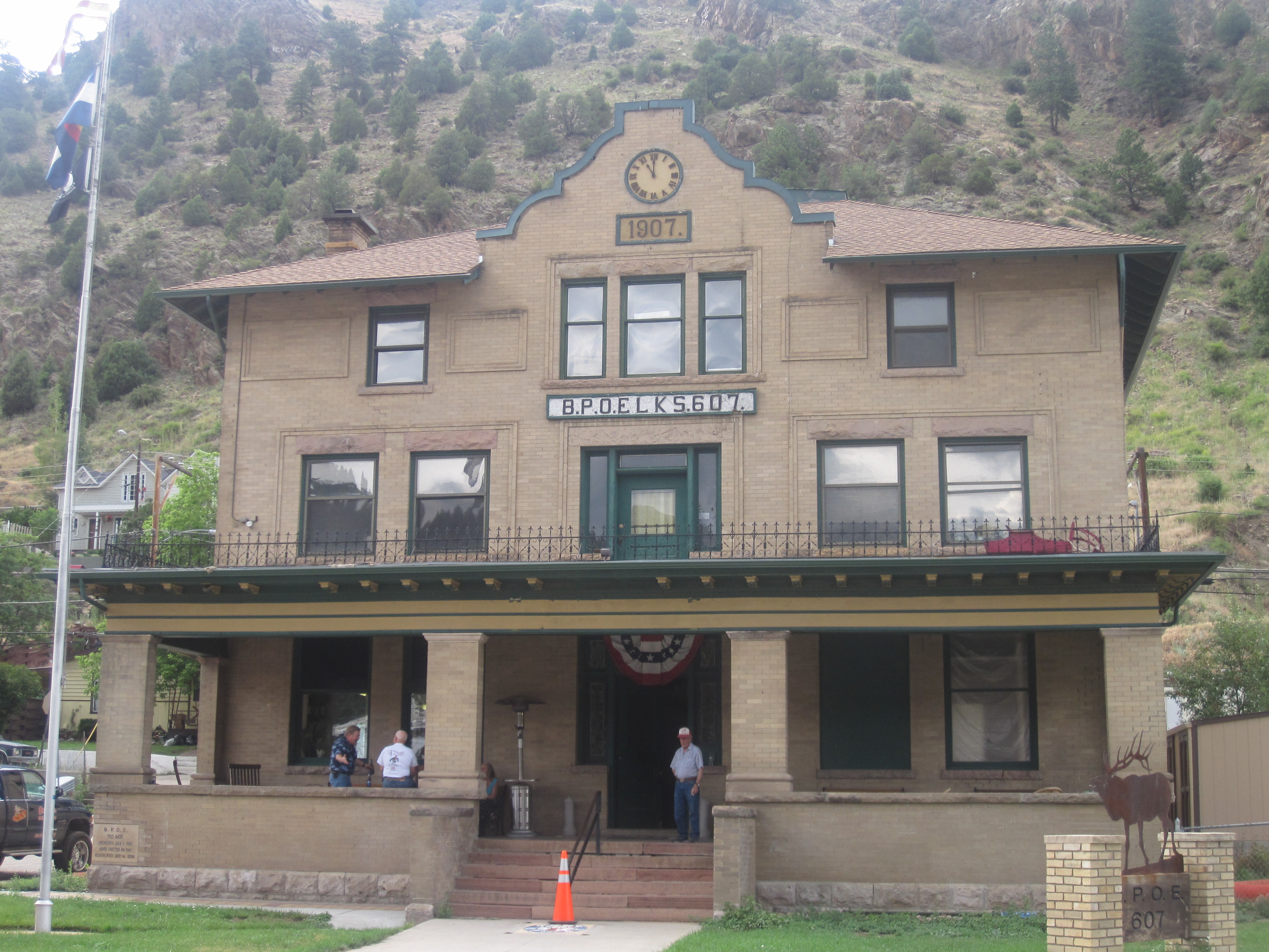 Elks lodge in Idaho Springs, Colorado, photo taken with Canon camera.